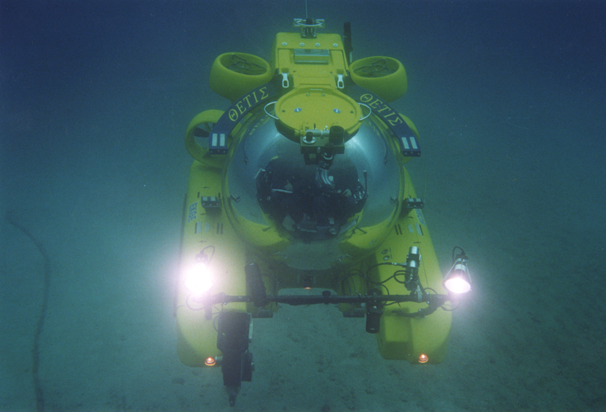 Remora 2000 research submarine of the Hellenic Centre for Marine Research